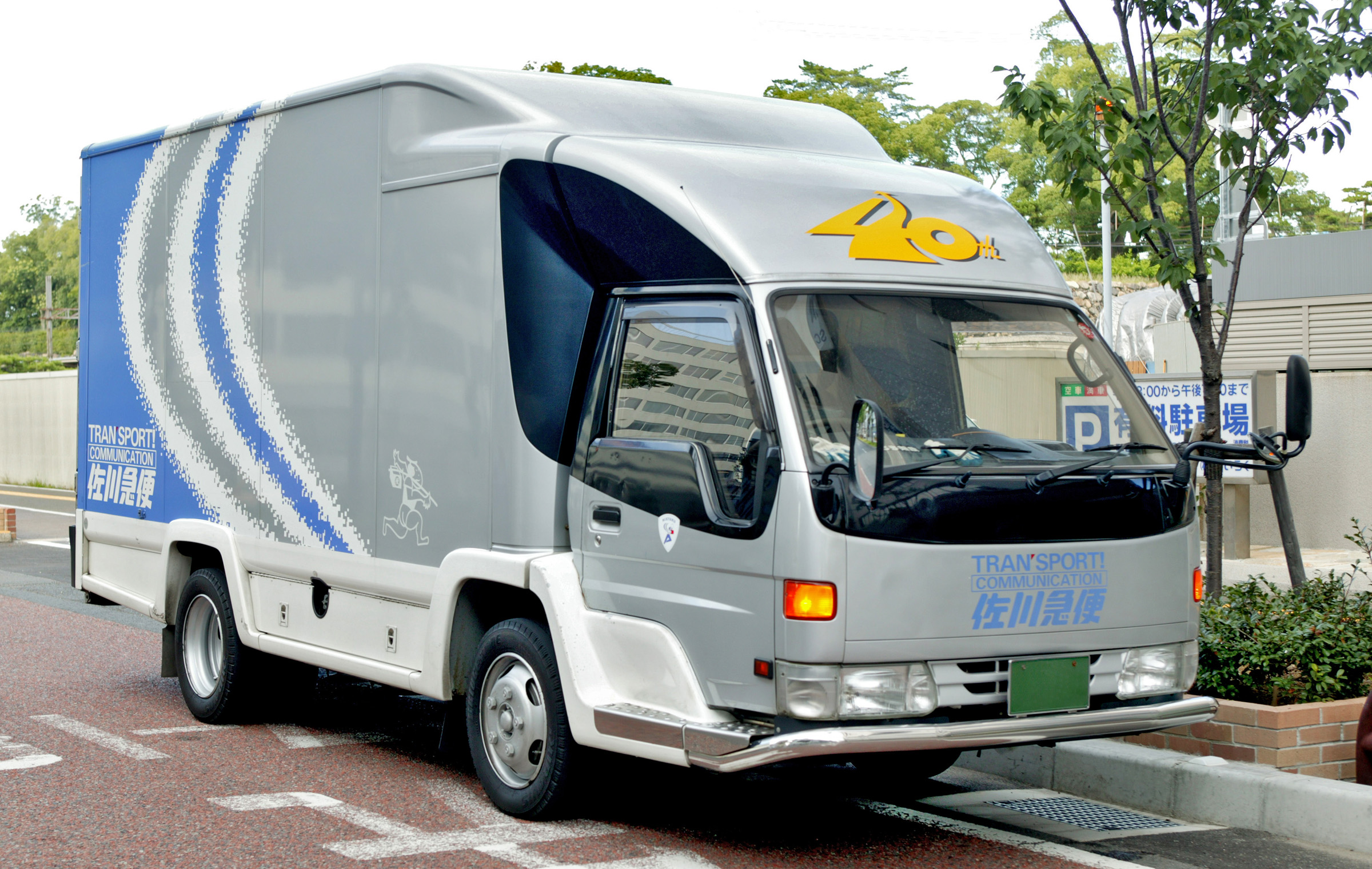 Toyota Dyna Super Low Cab, Panel Van of the Sagawa Express